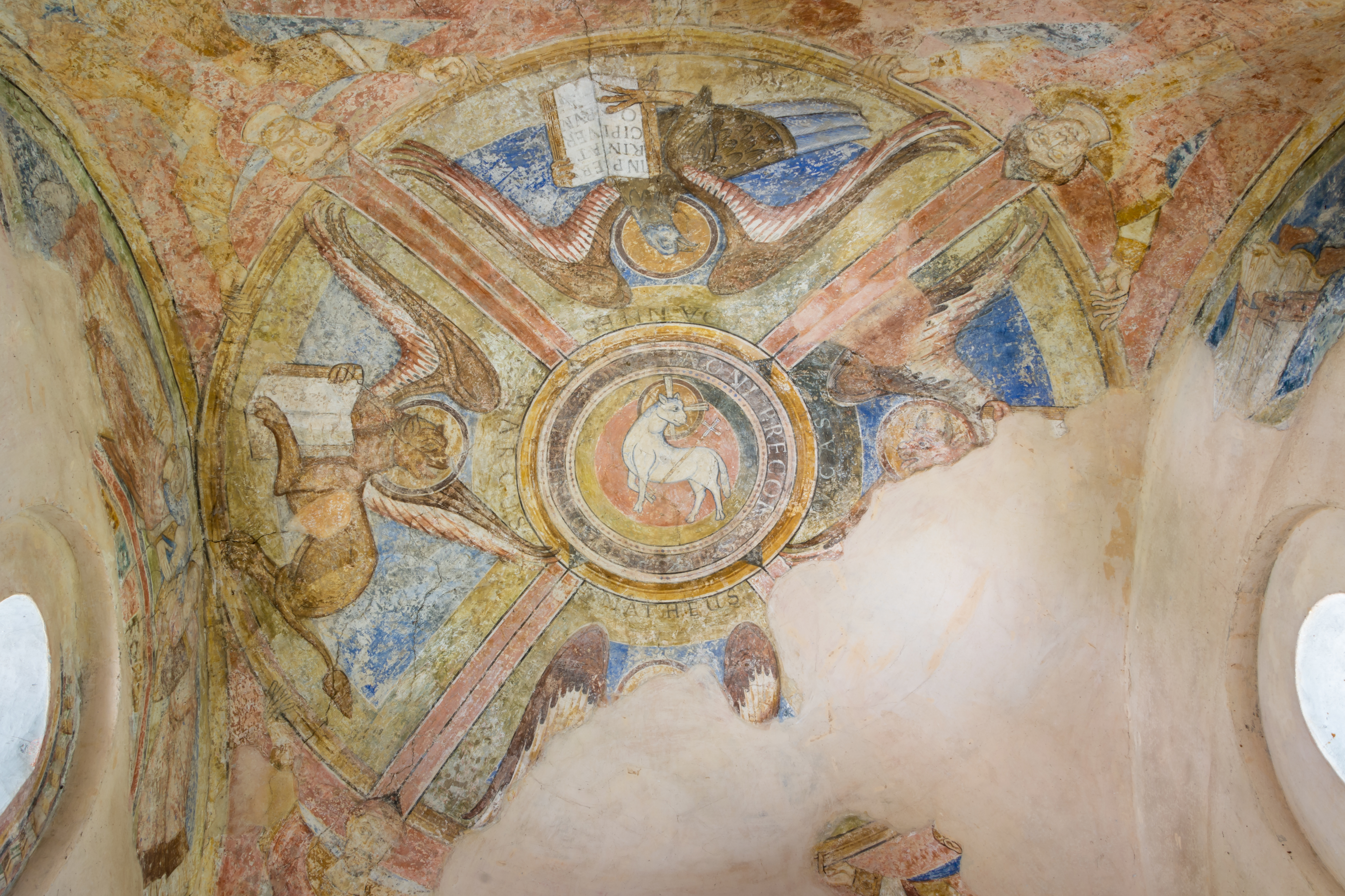 Romanesque ceiling fresco from the 12th century (probably around 1160) in the Chapel of St. John in Pürgg, Styria, Austria